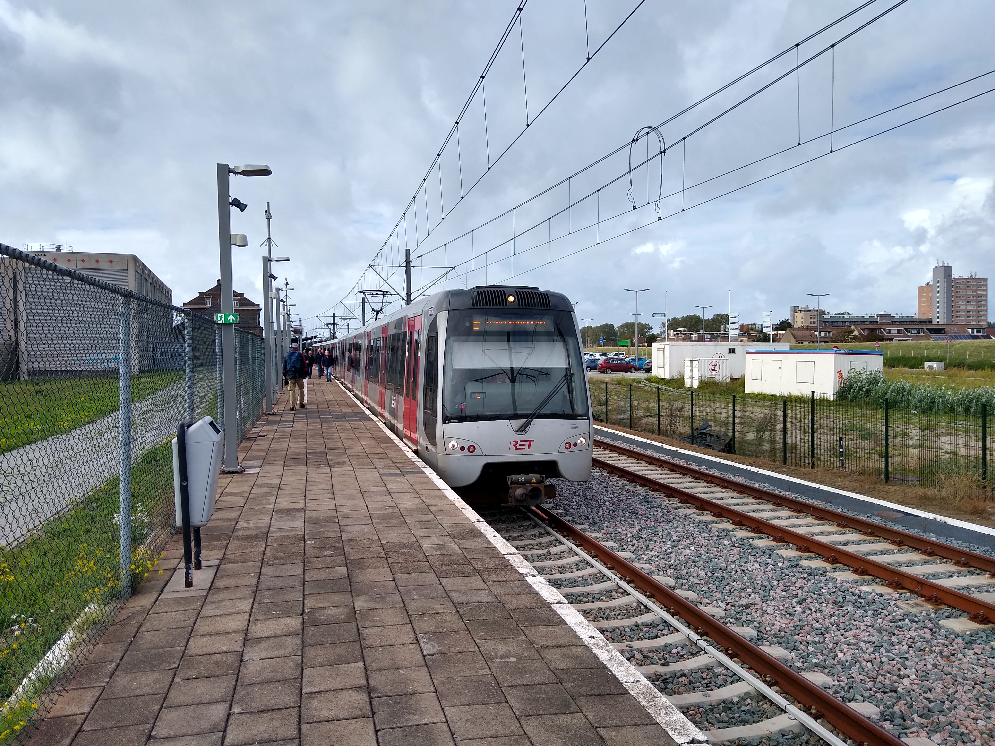 RET Metro train at the eastern section of the platform of Hoek van Holland Haven